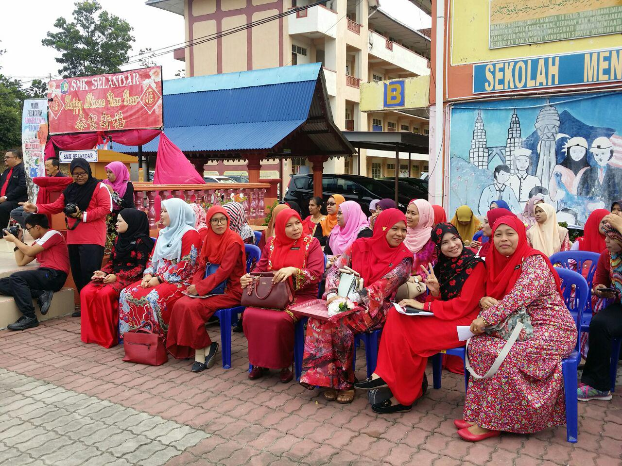 CNY 9